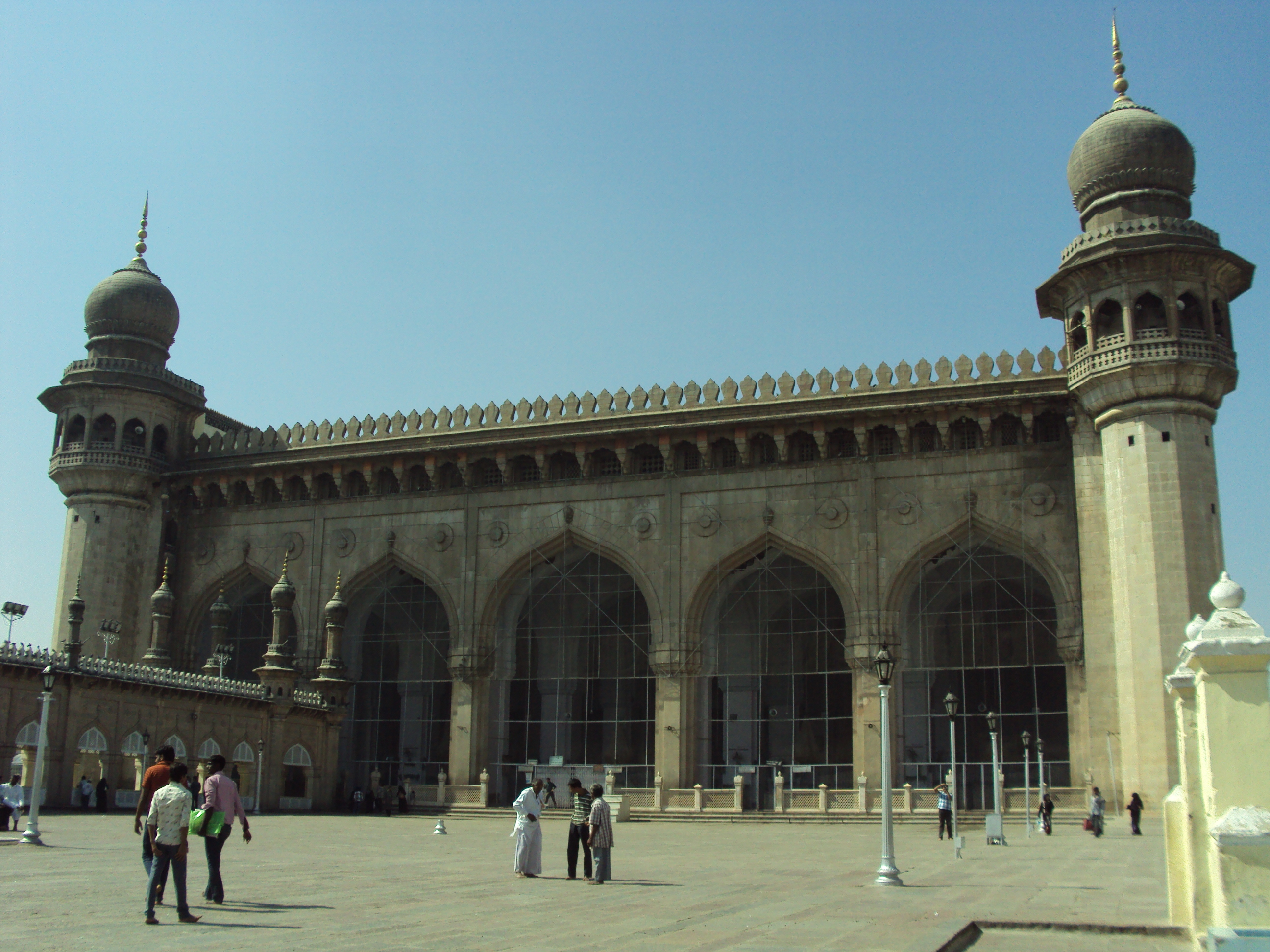 Mecca Masjid is situated near Charminar in Old City of Hyderabad. It also have the Graves of all Nizams and other members of Royal Family.